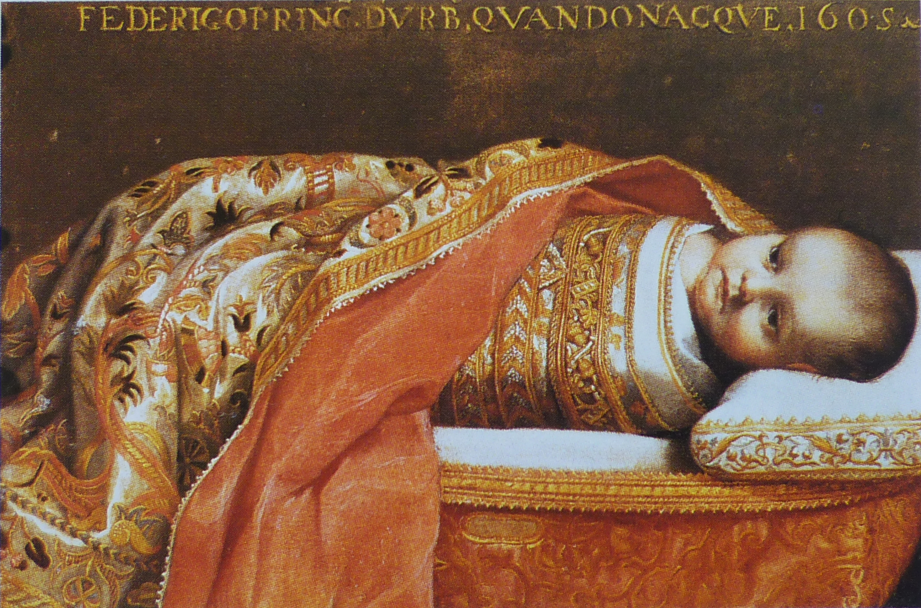 The swaddled Prince of Urbino in the cradle